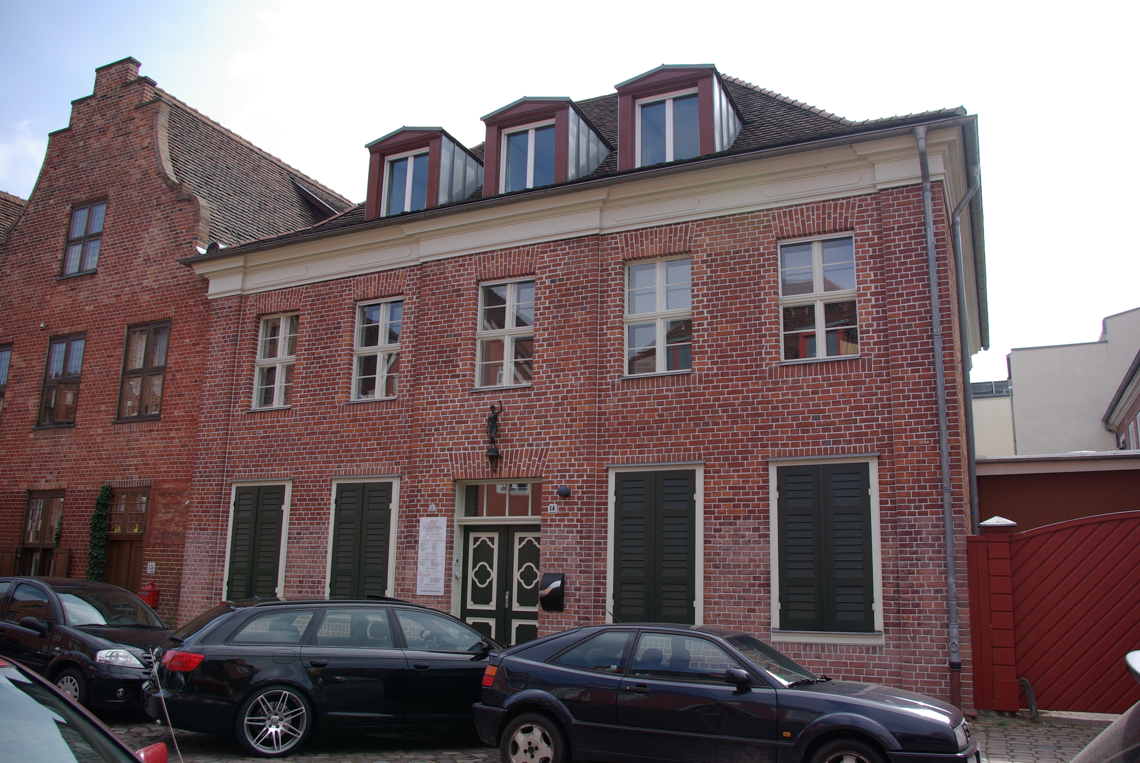 Potsdam in Germany. The house Mittelstraße 14 is a listed building.